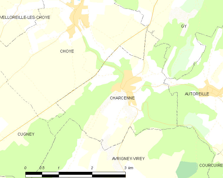 Map of French municipality